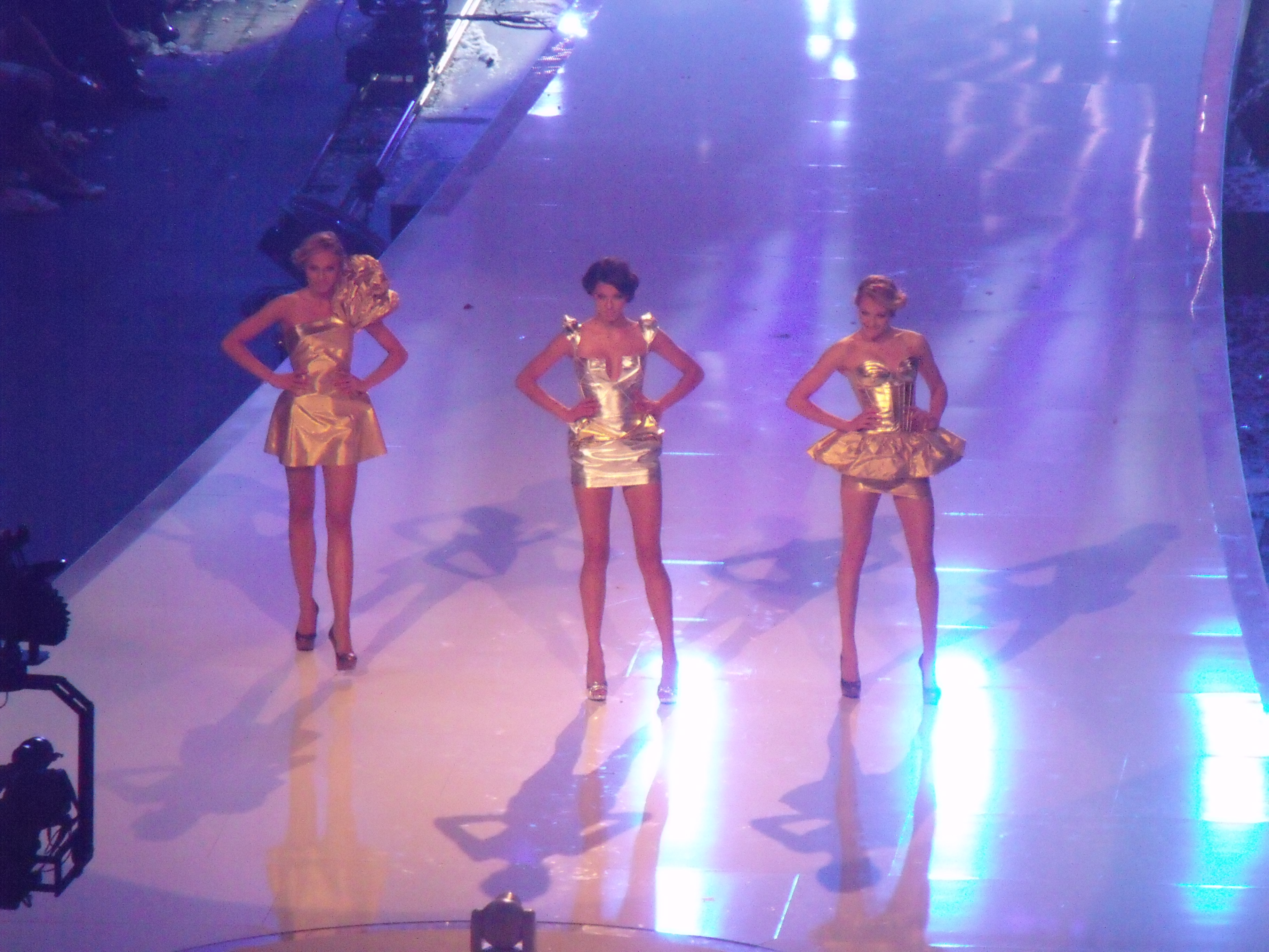 The three finalist from Germanys Next Topmodel Jana Beller, Rebecca Mir and Amelie Klever